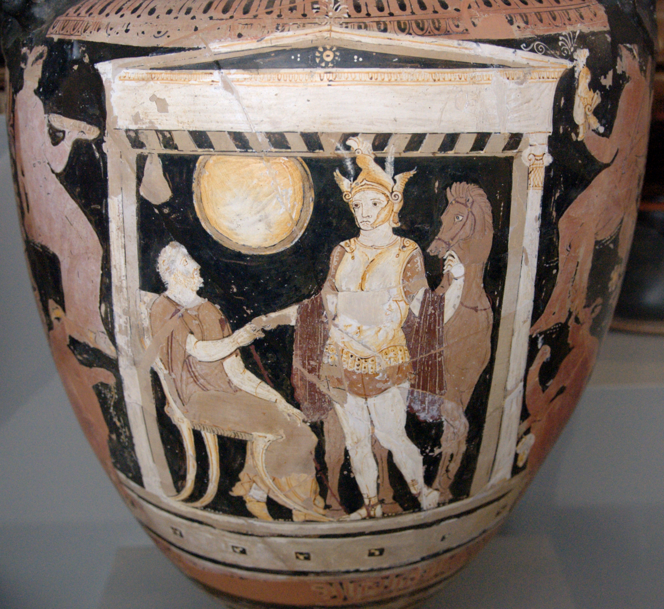 Naiskos. Side A of an Apulian red-figure volute-krater, ca. 340 BC.